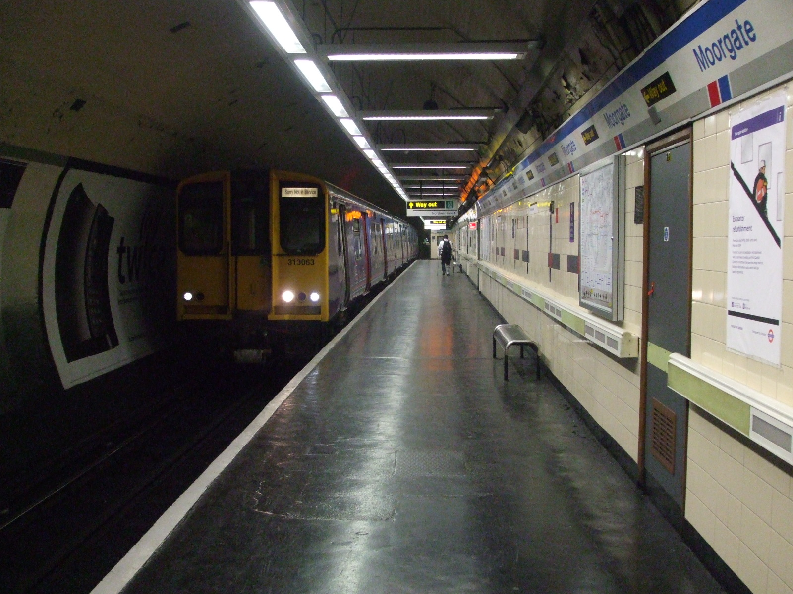 Class 313 unit 313063 about to depart Moorgate station platform 10 on an empty depot service (probably to Hornsey).